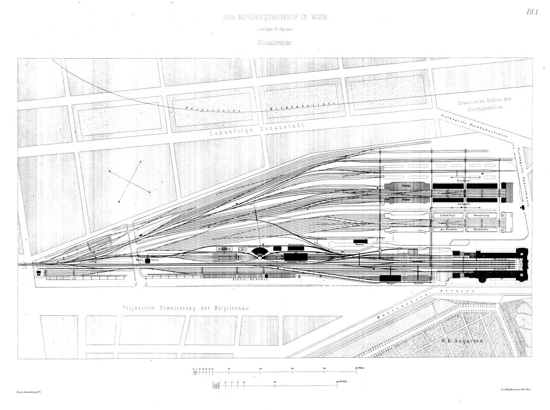 Plan of the Nordwestbahnhof in Vienna.